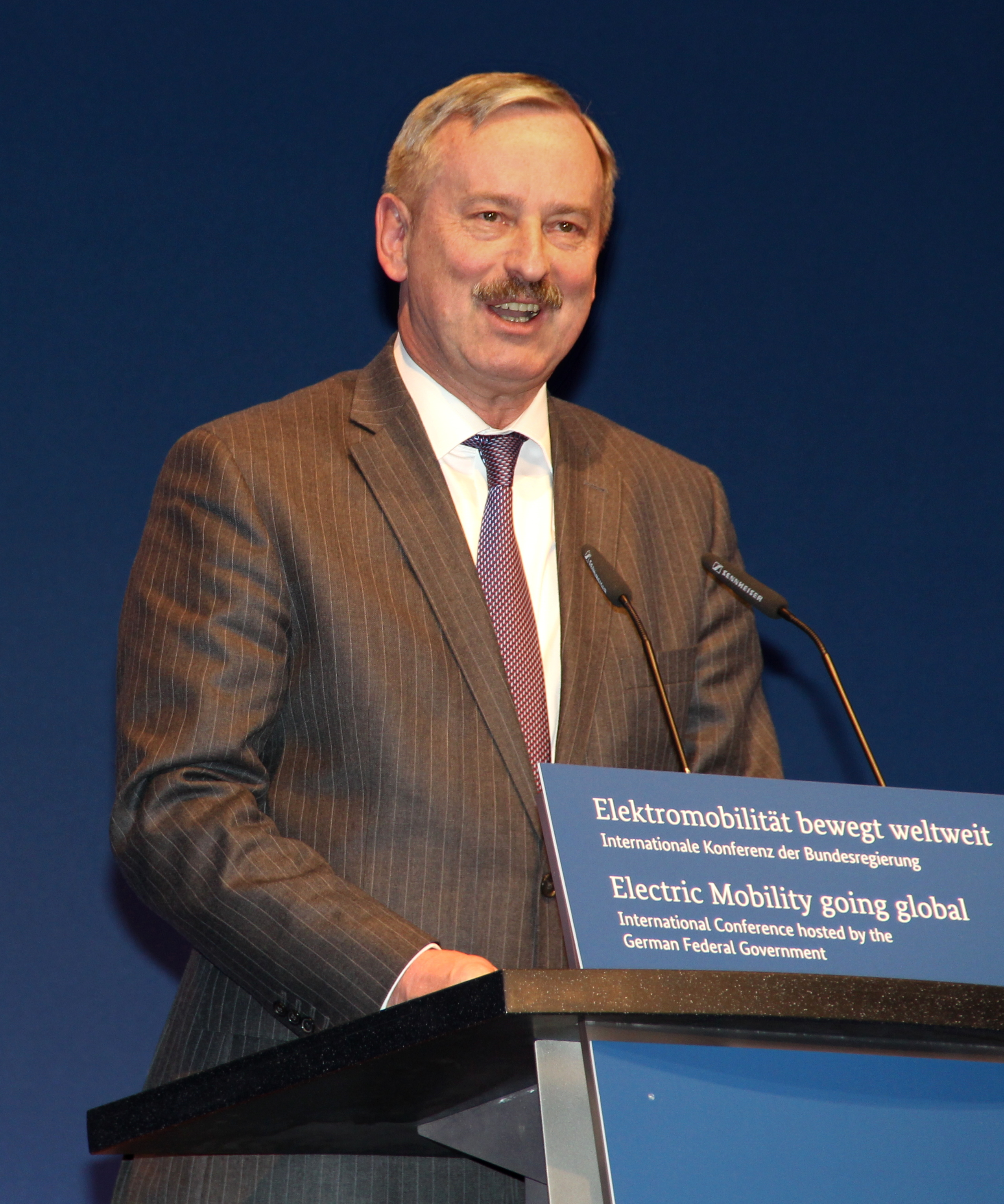 Siim Kallas, Vice President of EU and Commissaire for Traffic